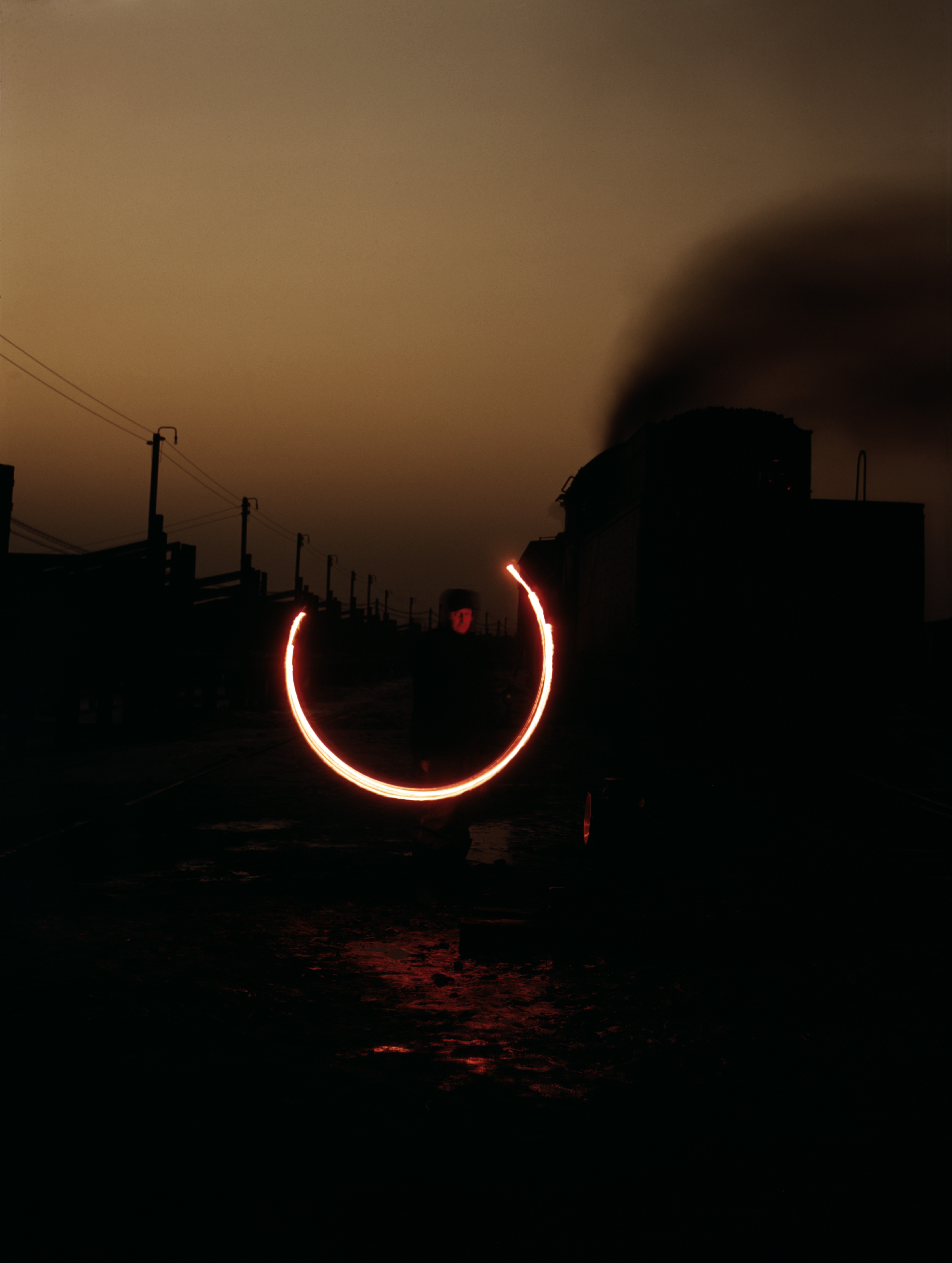 Indiana Harbor Belt RR, switchman demonstrating signal with a "fusee" - used at twilight and dawn - when visibility is poor. This signal means "stop." Calumet City, Ill.